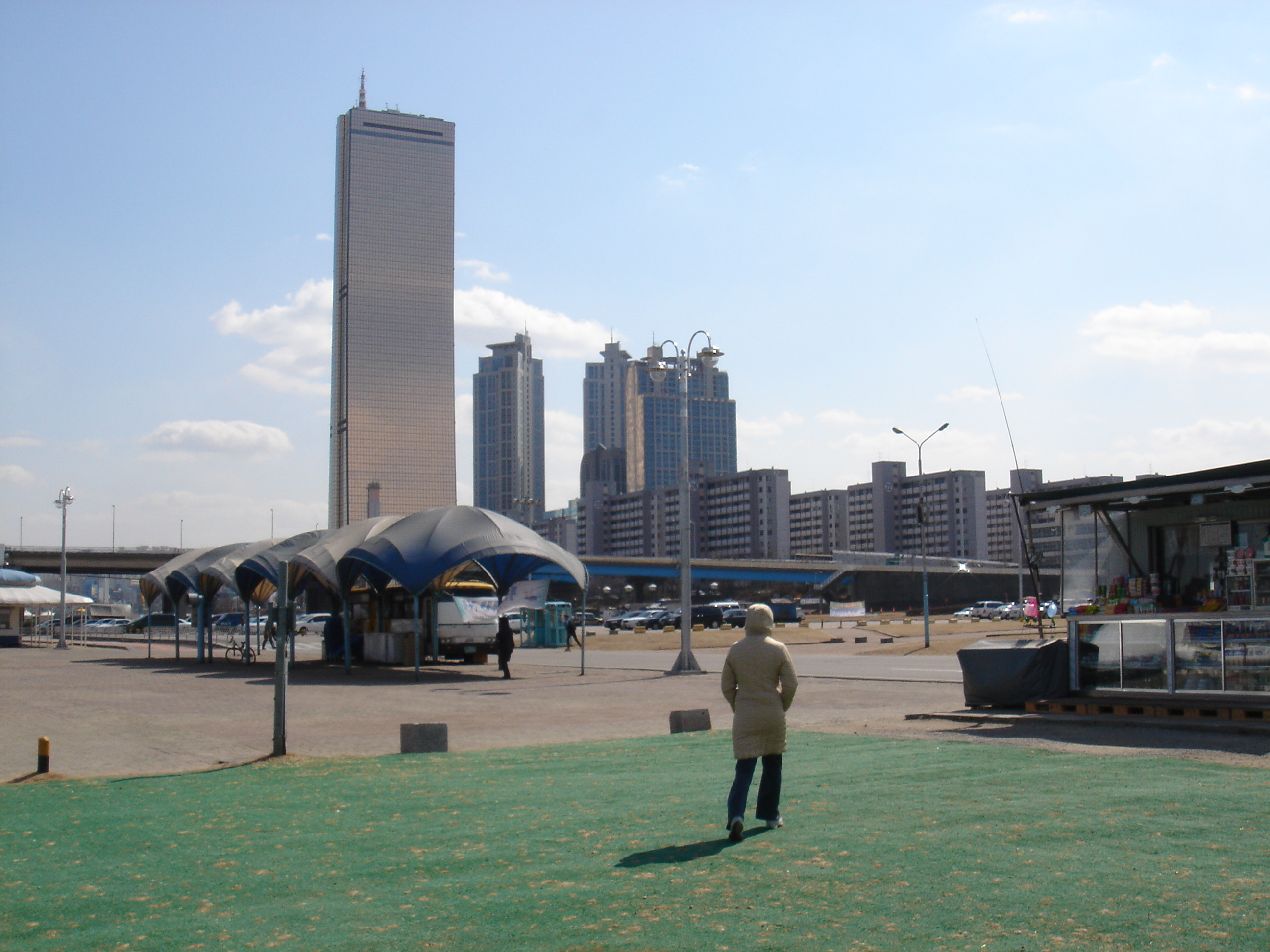 A view of Yeouido island in Seoul.